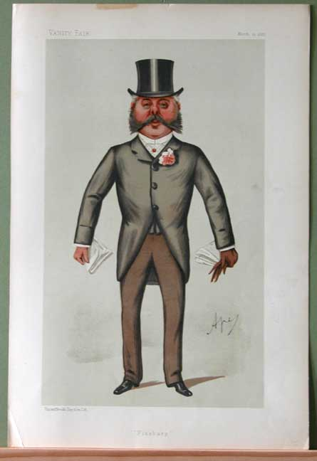 Statesmen No.515: Caricature of Col Francis Duncan RA MP CB LLD DCL MA. Caption reads: "Finsbury"